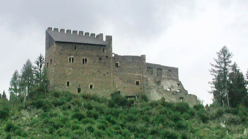 Burgruine Frauenburg in Unzmarkt-Frauenburg